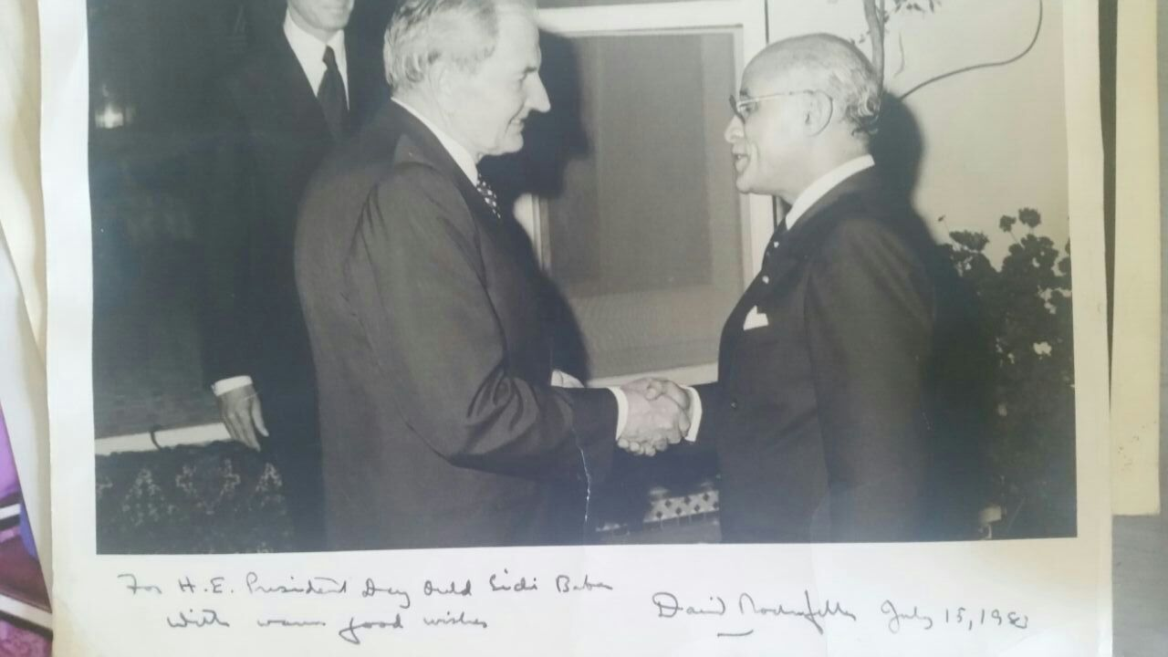 Their Excellencies, Dey Ould Sidi baba and David Rockefeller